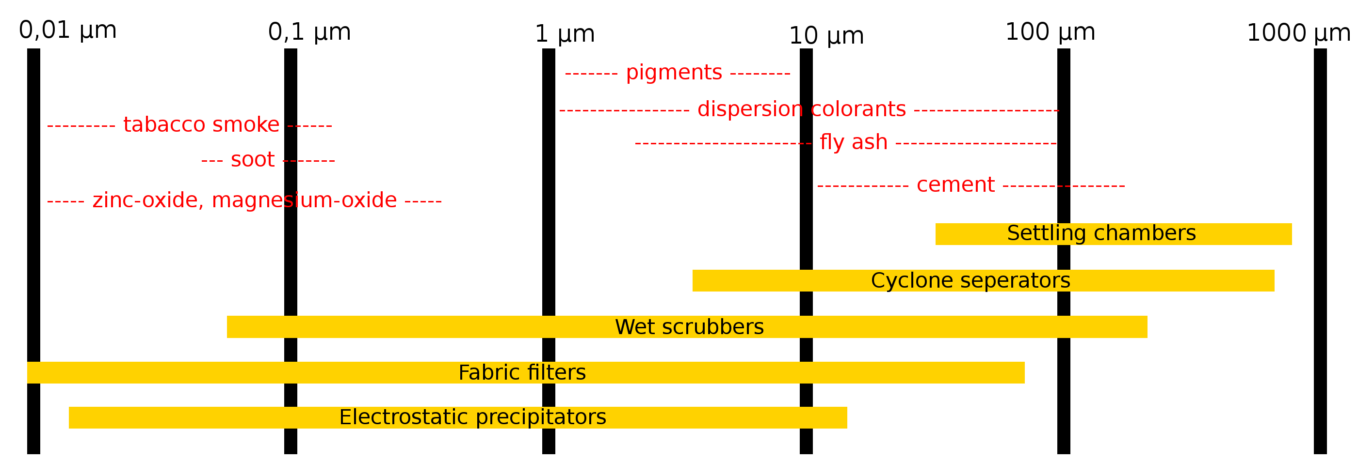 A schematic showing how fine/coarse the different methods of dust filtration are. Note that sand isn't mentioned, but this falls in the same grain size as cement. Image was made based on information from the book "Wie funktioniert das ? Technik heute.